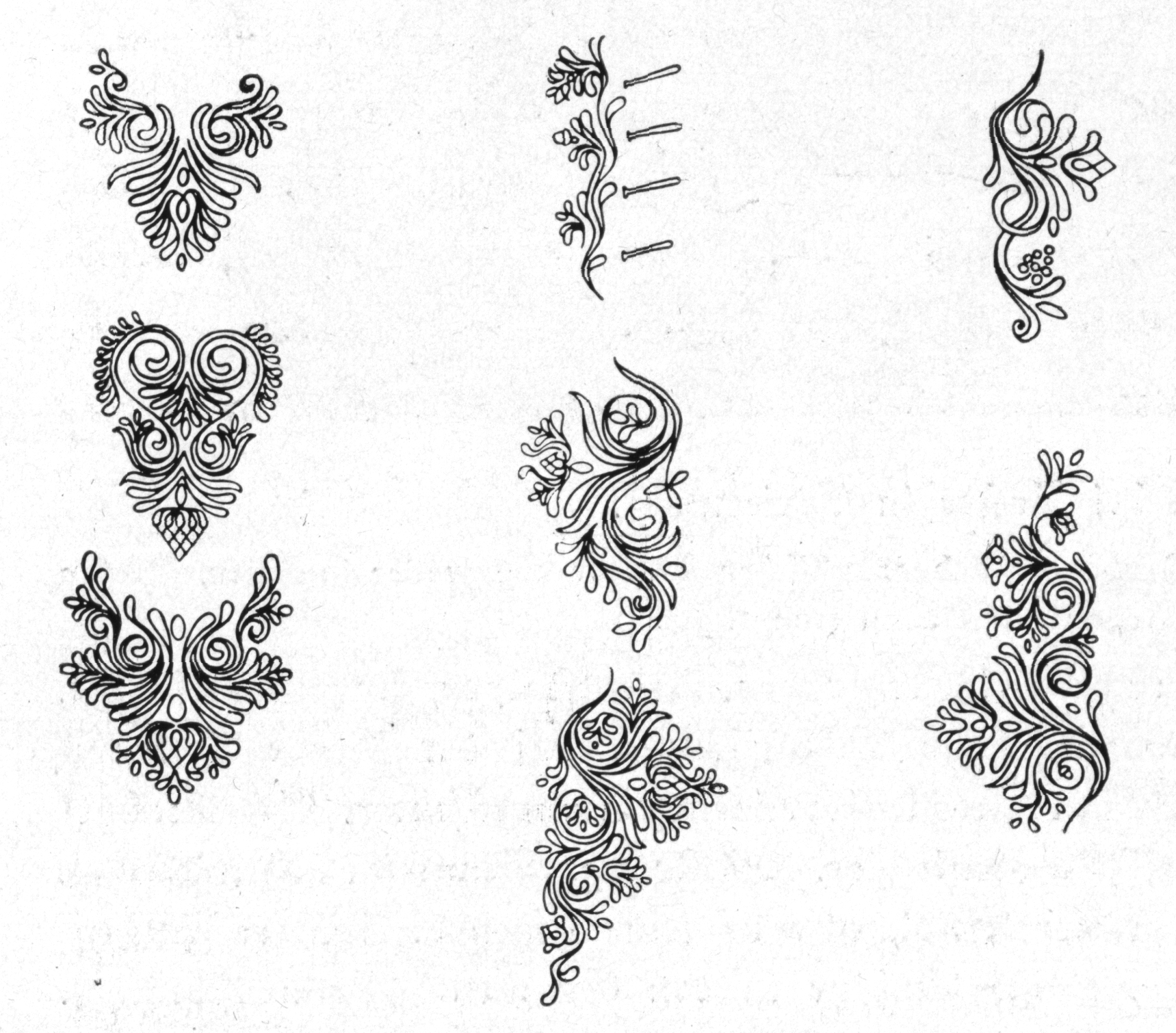 Steirisches Trachtenbuch - Mautner-Geramb 1935 Traditional Costumes from Ennstal, Styria Scanprojekt Bundesdenkmalamt Österreich This scan or this PDF-file was created within the Austrian Wikipedia-project Denkmalpflege Österreich (German only) supported by Wikimedia Germany and Wikimedia Austria as part of the Wikipedia community-project to collect public domain documents from the library of the Heritage Monuments Board of Austria. This document describes or depicts an object which is located in Austria today. Texts are written in German language. Send requests for uncompressed scans to Hubertl. This work is in the public domain in the United States, and those countries with a copyright term of life of the author plus 100 years or less. This file has been identified as being free of known restrictions under copyright law, including all related and neighboring rights.